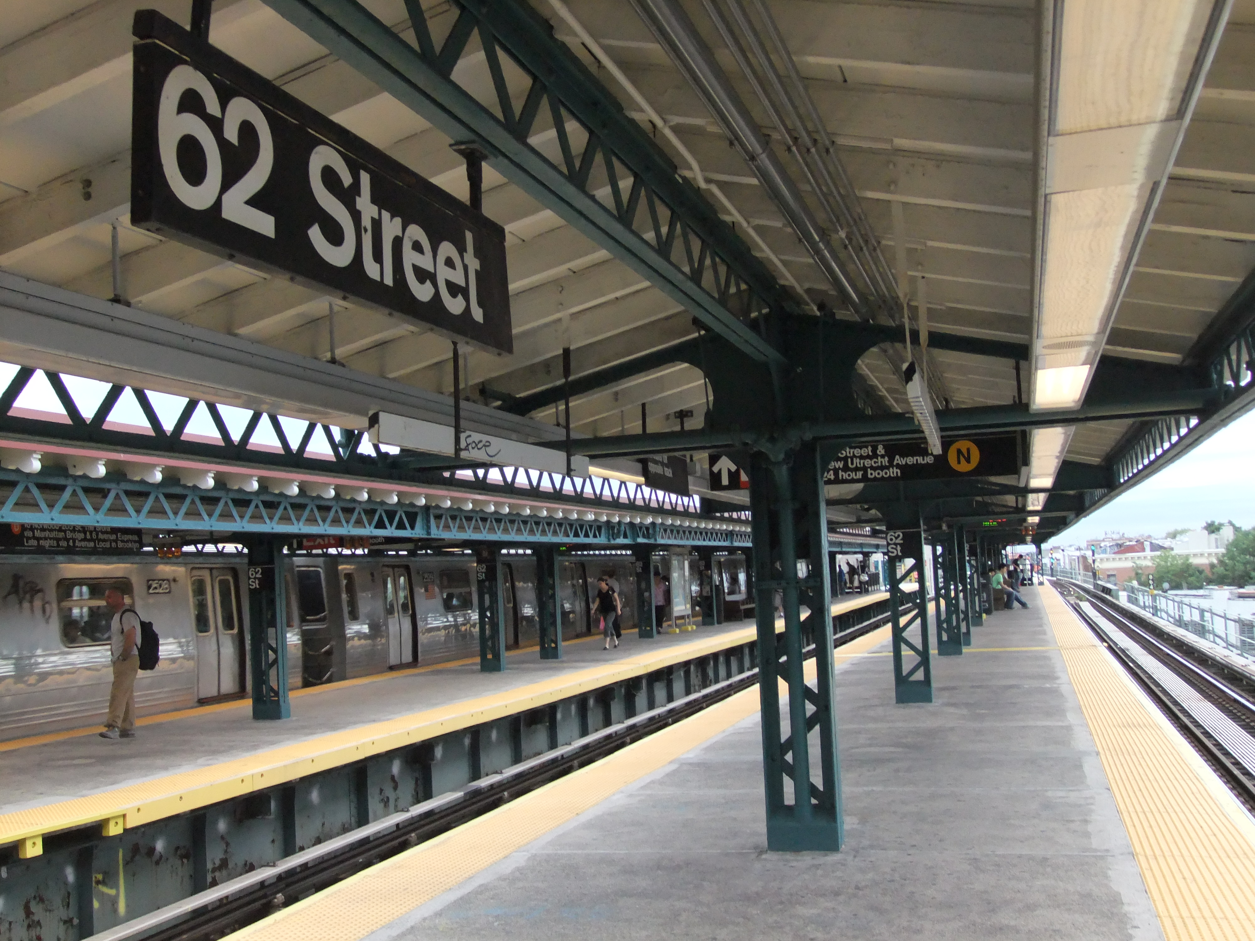 Coney Island bound platform at the 62nd Street station in Brooklyn, NY.